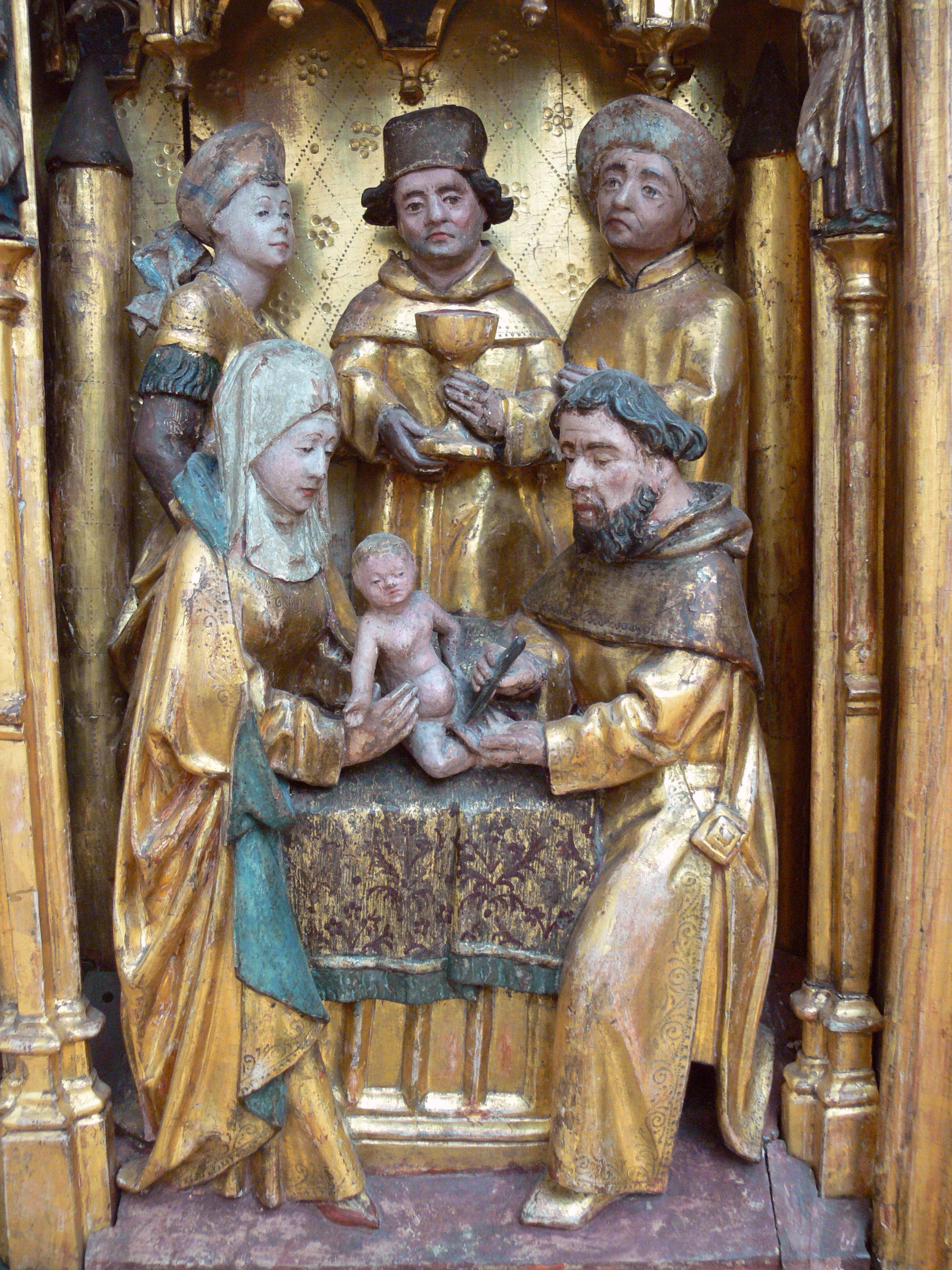 Circumcision of Christ, from a winged Altarpiece with Scenes from the Life of Mary and the Childhood of Jesus Christ, Brabant, c. 1480 (from Mengen, North Brabant)